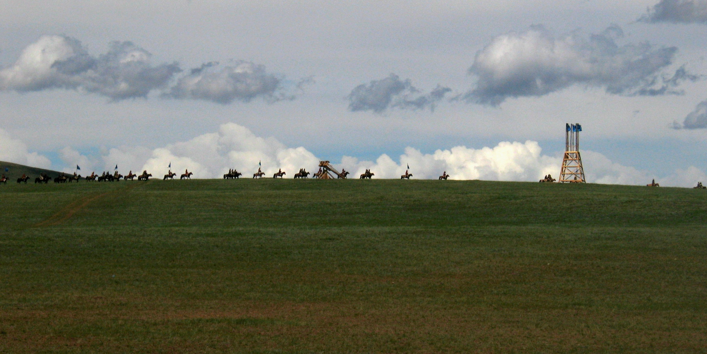 Reenactment of a Mongol military movement.